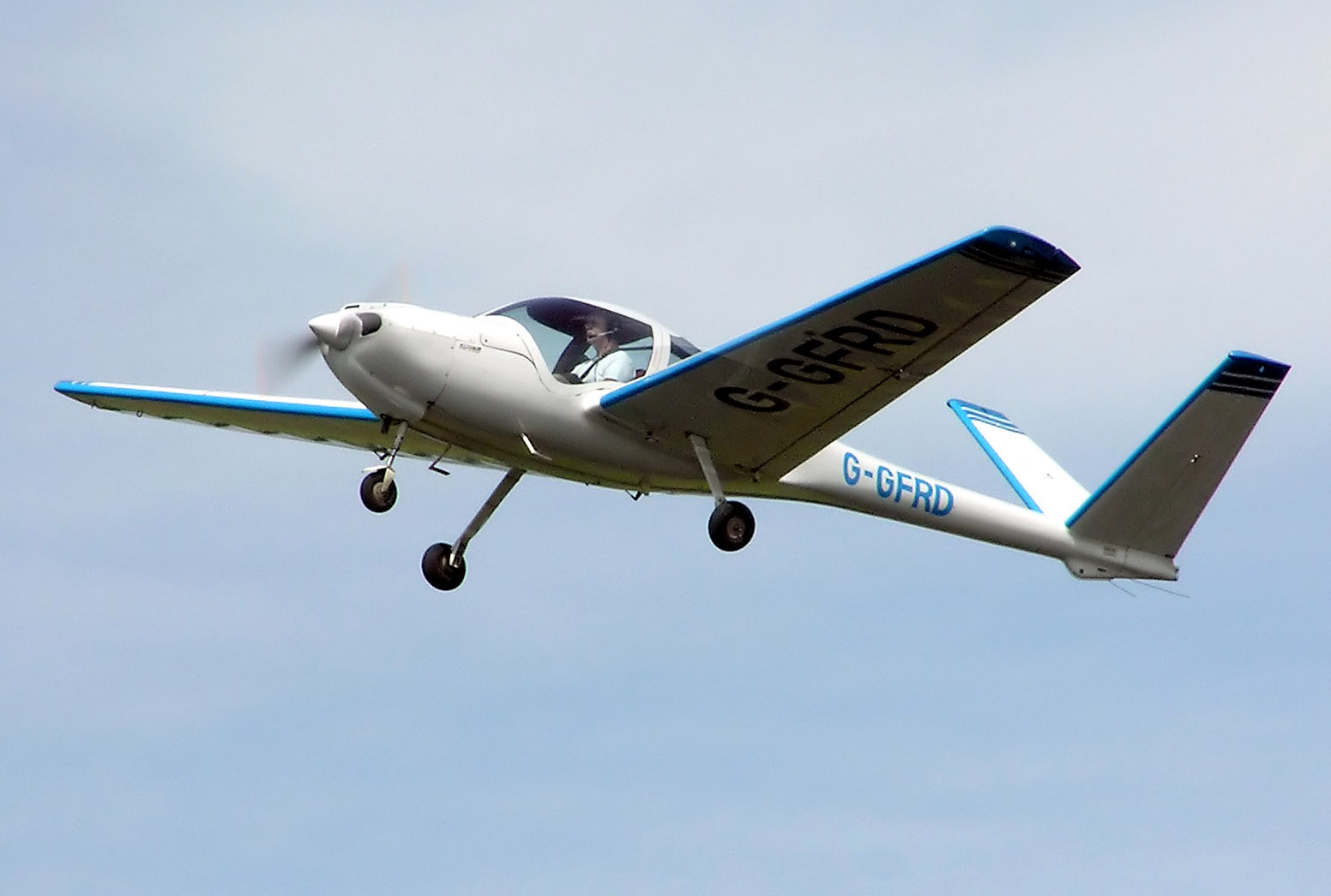 Robin ATL L light aircraft (UK registered G-GFRD) taking off from Kemble Airfield, Gloucestershire, England. This aircraft manufactured in 1986.; v-shaped tail Photographed by Adrian Pingstone in July 2005 and released to the public domain.